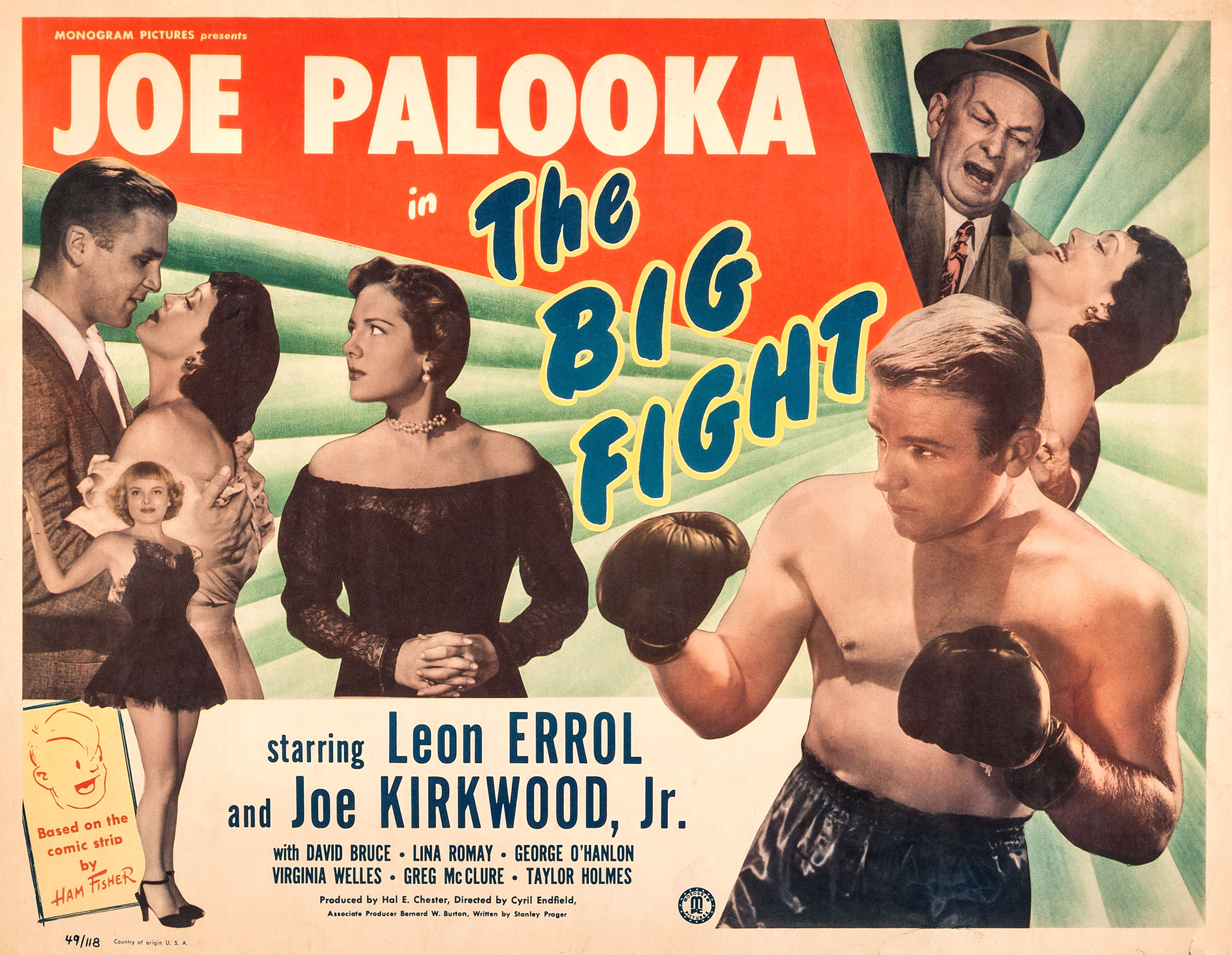 Poster for the 1949 American film Joe Palooka in the Big Fight.